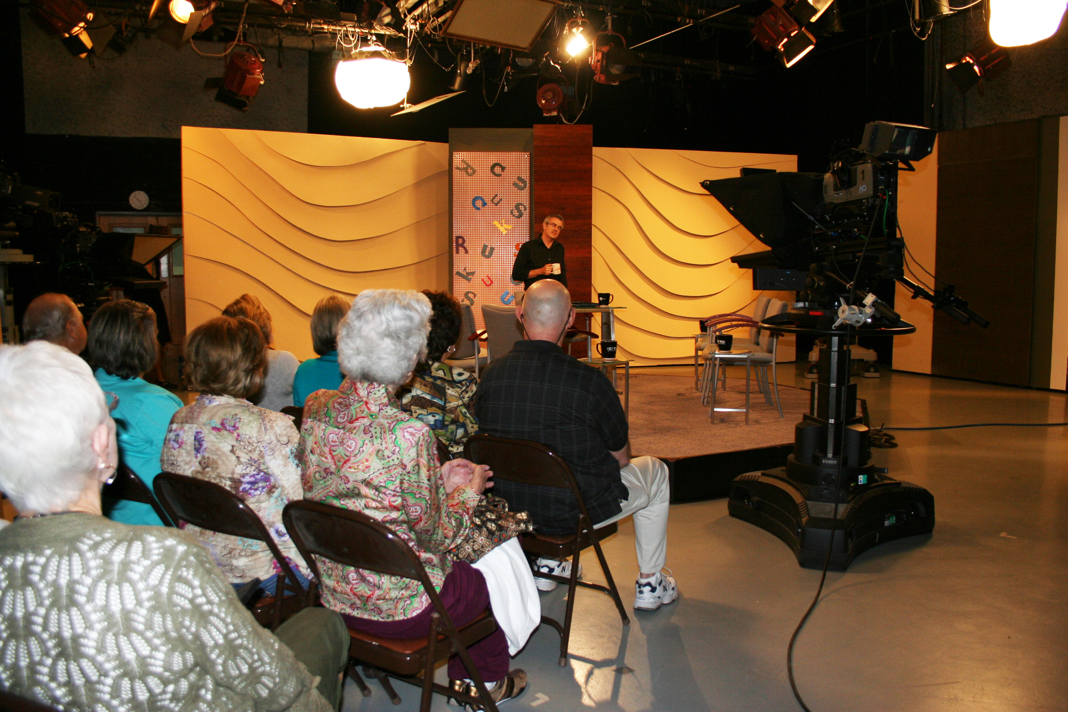 KCPT Ruckus Event with Country Club Bank's Ambassador Club